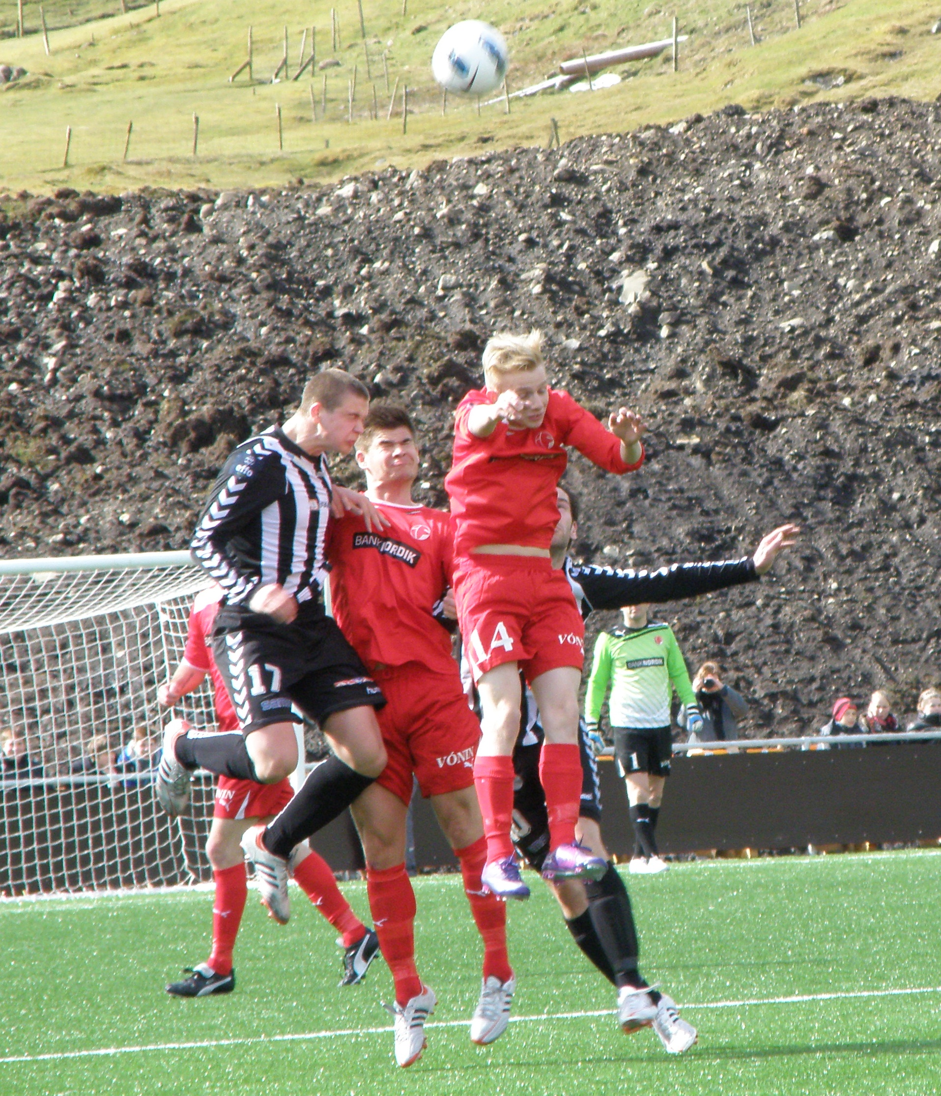 This photo is from the first football match on TB Tvøroyri's new football stadium, which is called Við Stórá (By the Grand River). The match was between TB Tvøroyri and ÍF Fuglafjørður in the Faroese Premier League (Effodeildin). TB won the match 1-0. There was an opening ceremony just before the match. The ceremony was held inside the nearby sports hall because it was raining until half an hour before the ceremony started. The weather turned out just fine though, no rain during the match. Føroyskt: Fótbóltsdystur við Stórá í Trongisvági í Effodeildini millum TB og ÍF. Dysturin varð tann allarfyrsti dysturin í besti deildini, sum var spældur á nýggja vøllinum. Tað var hátíðarhald beint áðrenn dystin við røðum og horntónleiki. Meiningin var at hava tað uttandura, men tað regnaði líka til hálvan tíma áðrenn hátíðarhaldið skuldi byrja, og so varð avgjørt at halda tað inni í ítróttarhøllini. Veðrið klárnaði tó, og tað var turt meðan dysturin varð spældur. TB vann dystin 1-0 við máli sum Dmitrije Jankovic skoraði eftir fáum minuttum.